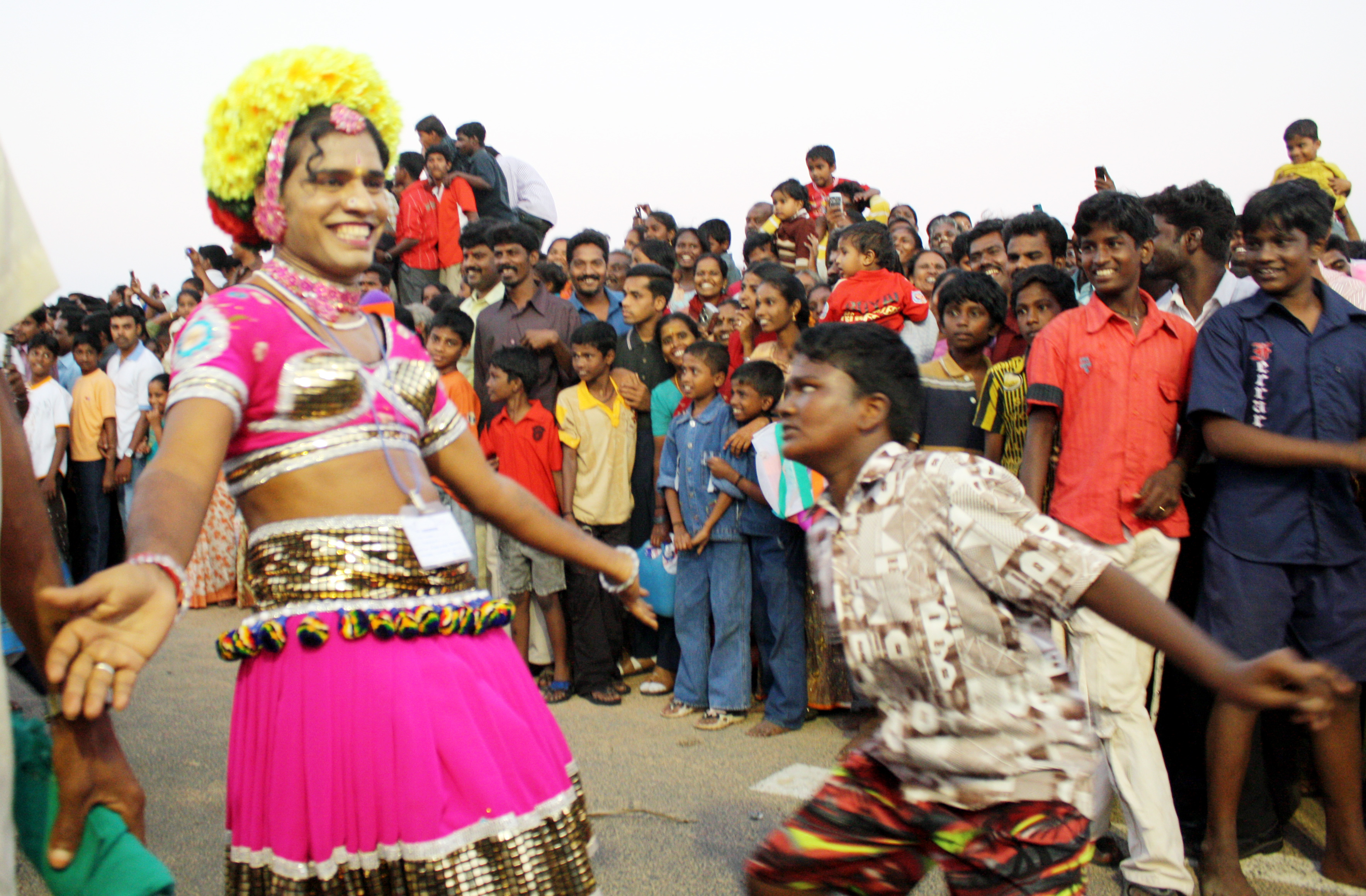 Chennai Sangamam (Tamil: சென்னை சங்கமம்) is a large annual open Tamil cultural festival held in the city of Chennai. The festival is organized by the Tamil Maiyam and Department of Tourism and Culture of the Government of Tamil Nadu with the intention of rejuvenating the old village festivals, art and artists. This picture was taken on the day of the grand finale.